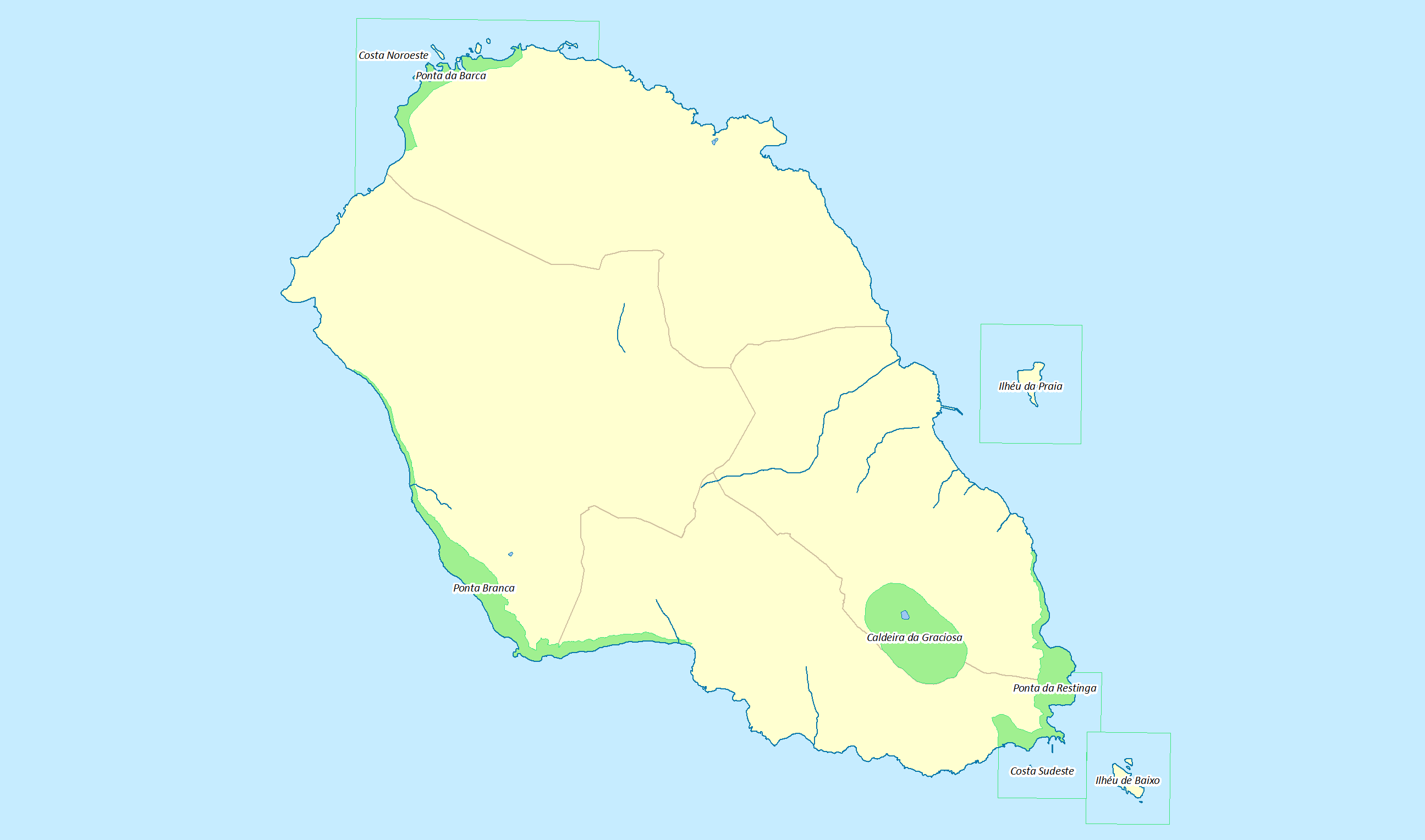 Location of the various protected areas of the Graciosa Nature Park